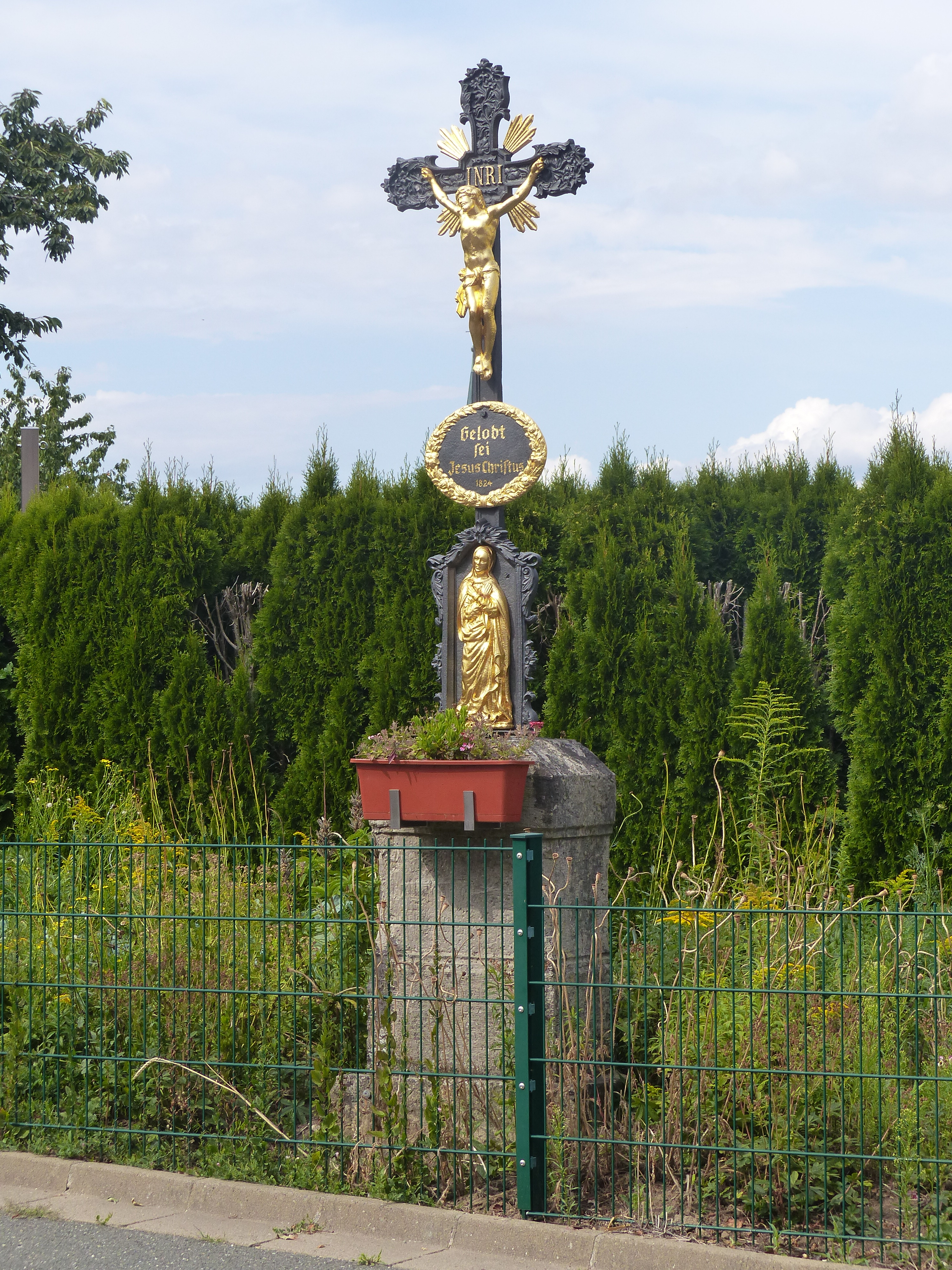 A crucifix in the village Geschwand, a district of the municipality of Obertrubach.